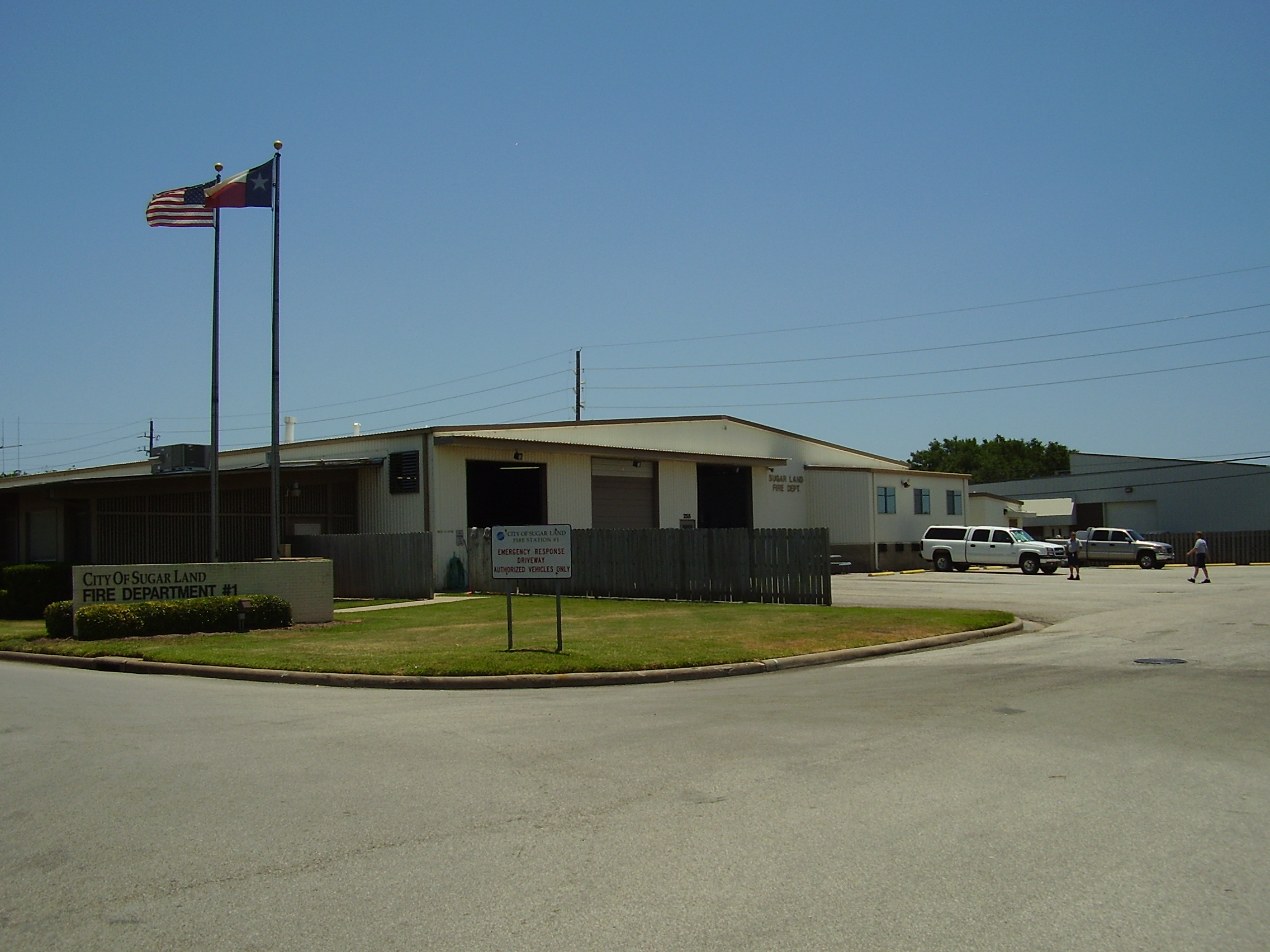 Sugar Land Fire Department 1, which houses the Sugar Land Fire Department offices and formerly housed the Sugar Land City Hall